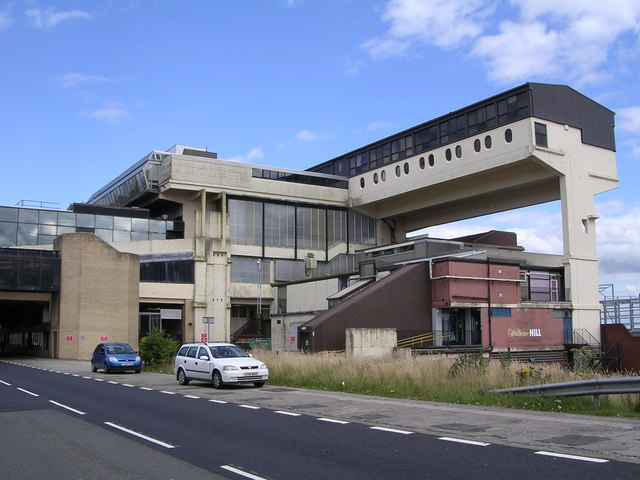 Cumbernauld Town Centre. Probably the ugliest town centre in Britain